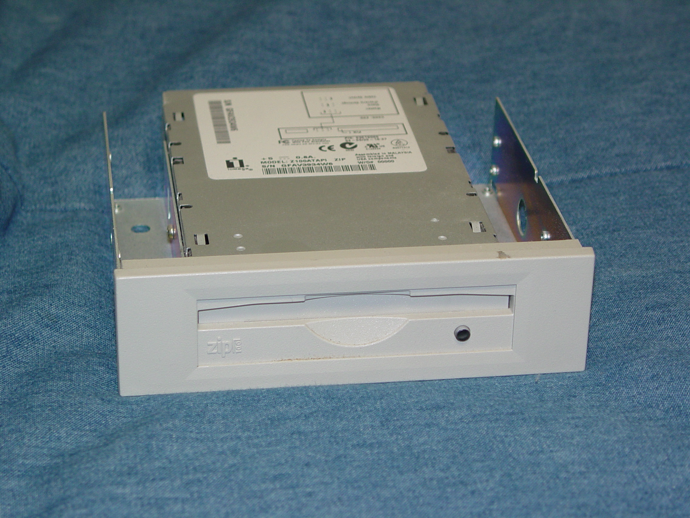 Internal zip drive inside 5.25" adaptor, outside of a computer just after removal. This marked the end of my (not great) experience with zip disks. I replaced this with a third optical drive.